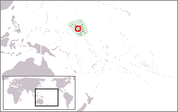 Location map for Kwajalein within the Marshall Islands.